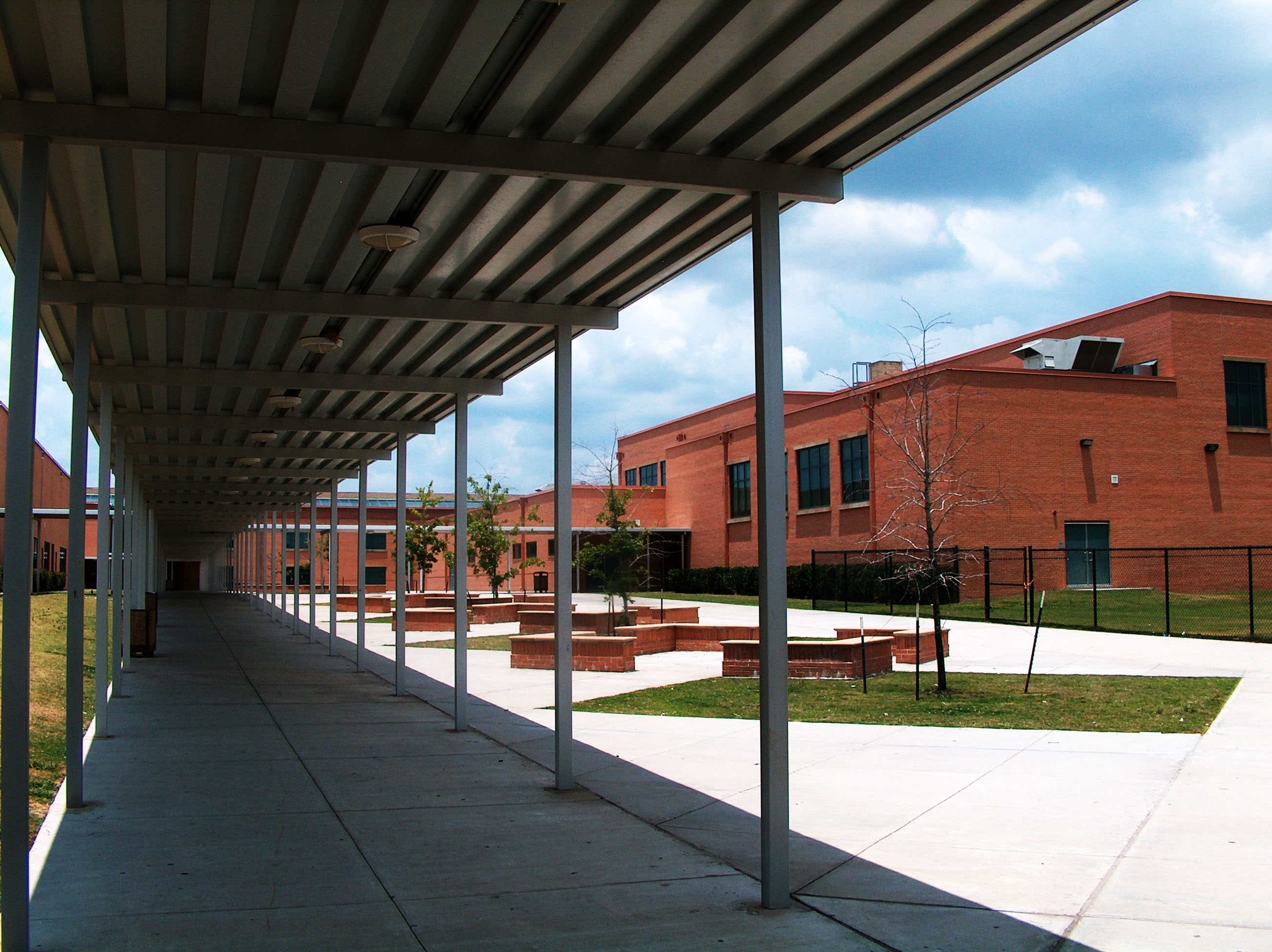 John J. Pershing Middle School